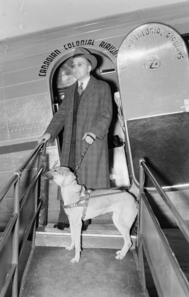 We see Mr. Thomas to his descent of an aircraft of the "Canadian Colonial Airways" guided by his guide dog.